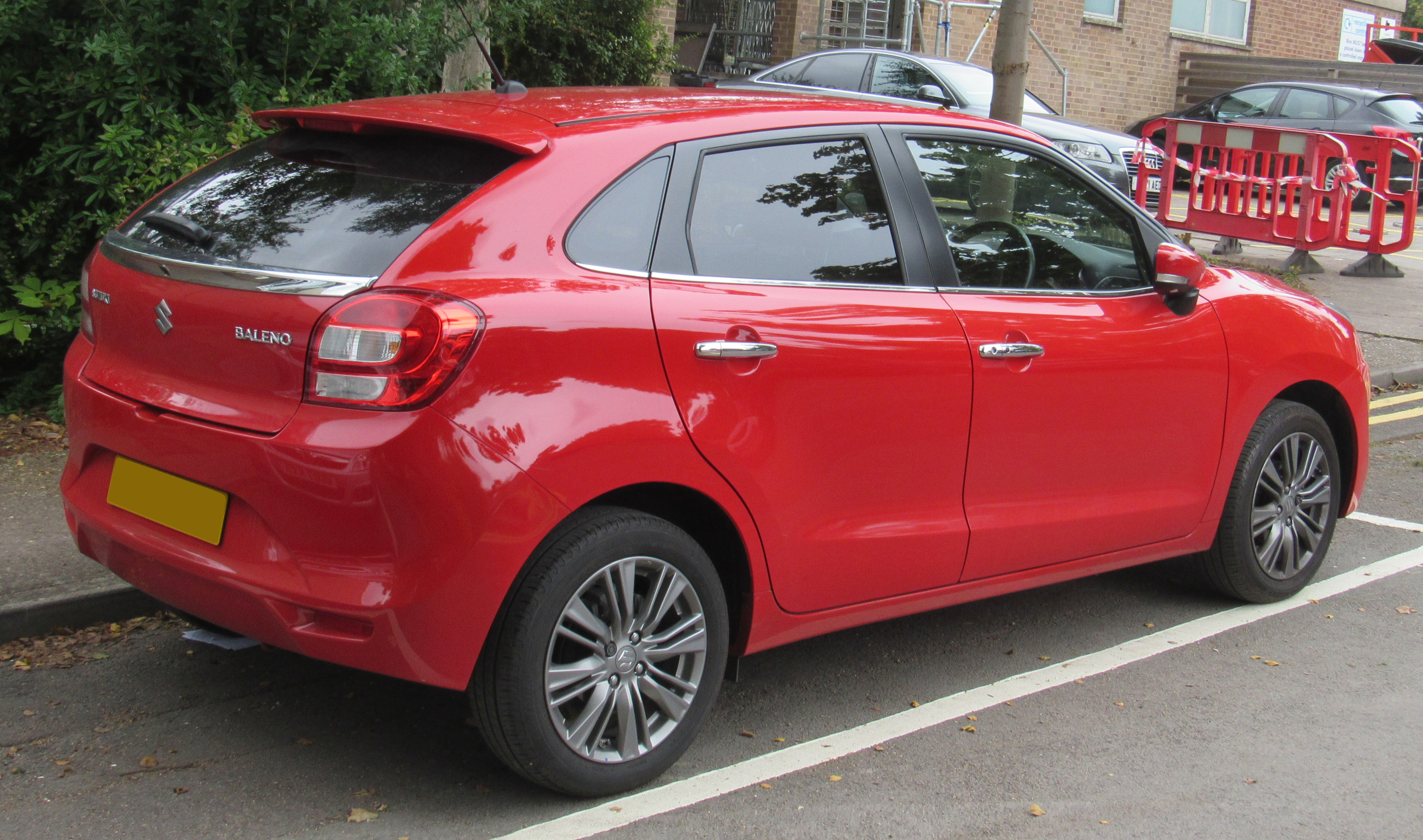 2016 Suzuki Baleno SZ5 Boosterjet 1.0 Rear Taken in Leamington Spa